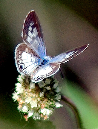 (Female) Cassius Blue (Leptotes cassius -- Family: Lycaenidae). Along Turner River Rd. in the Big Cypress National Preserve, Collier Co., Florida 01/31/2007